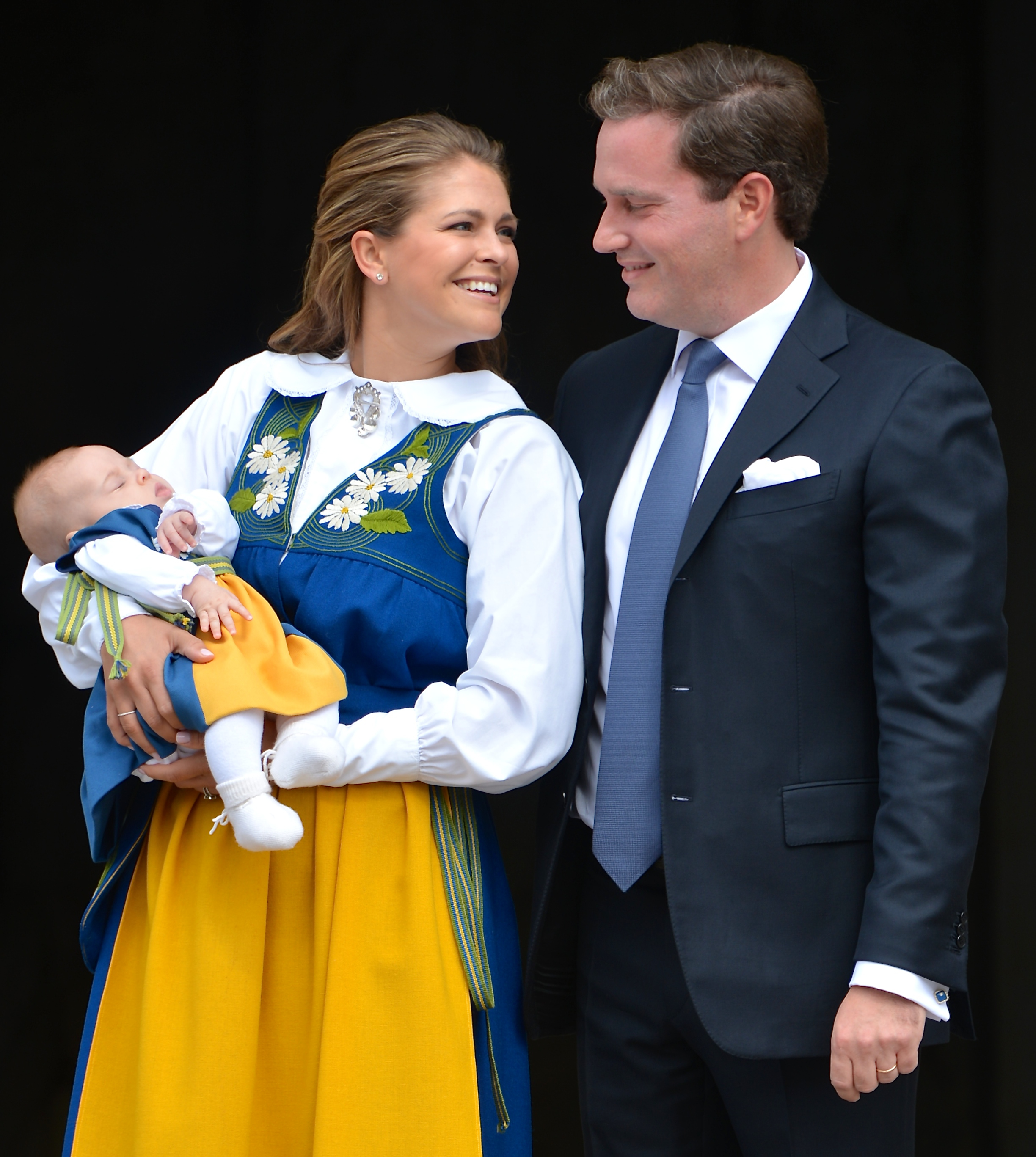 Princess Madeleine of Sweden and Christopher O'Neill on National Day June 6, 2014 in southern arch to the Royal Palace.